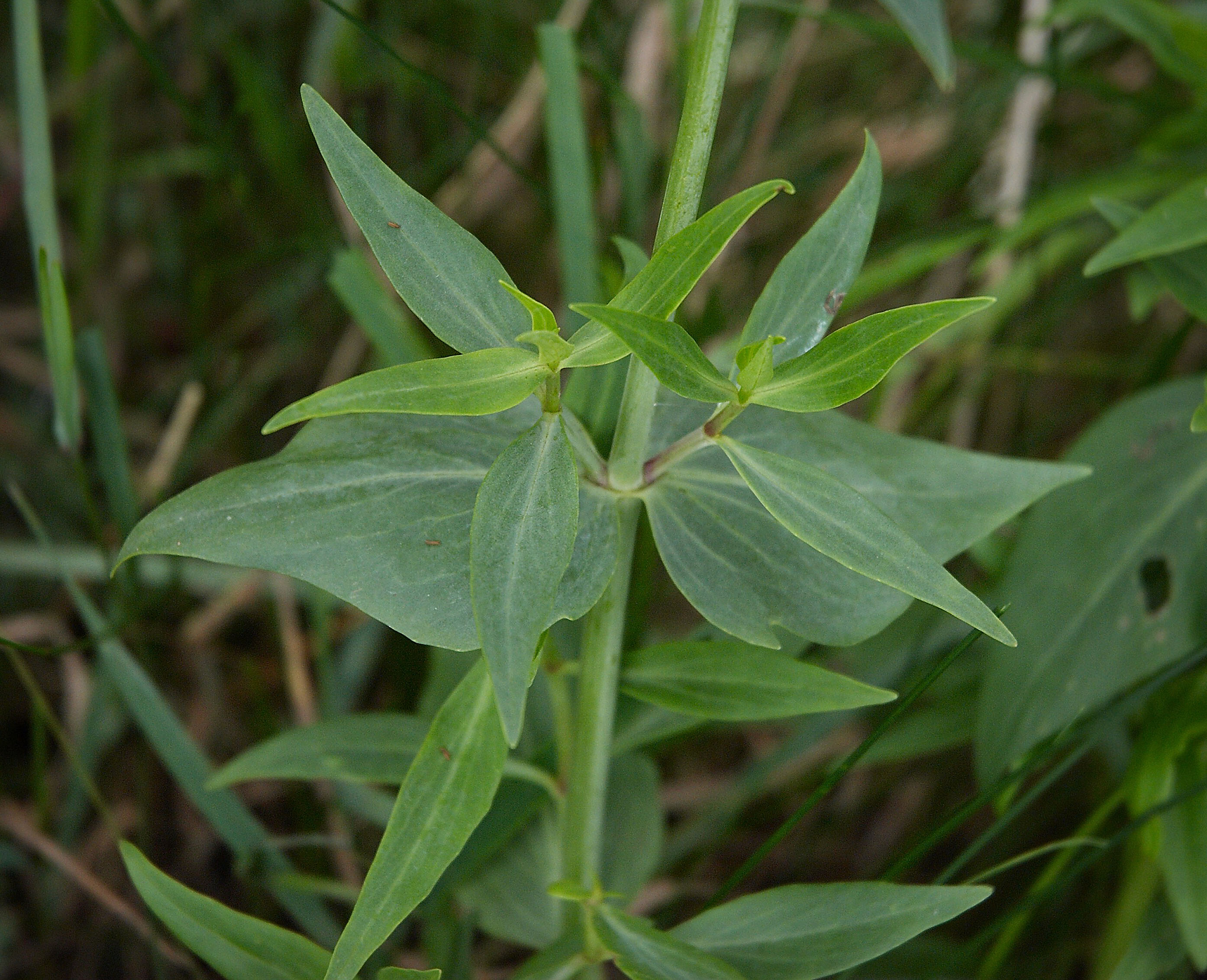 Red Valerian